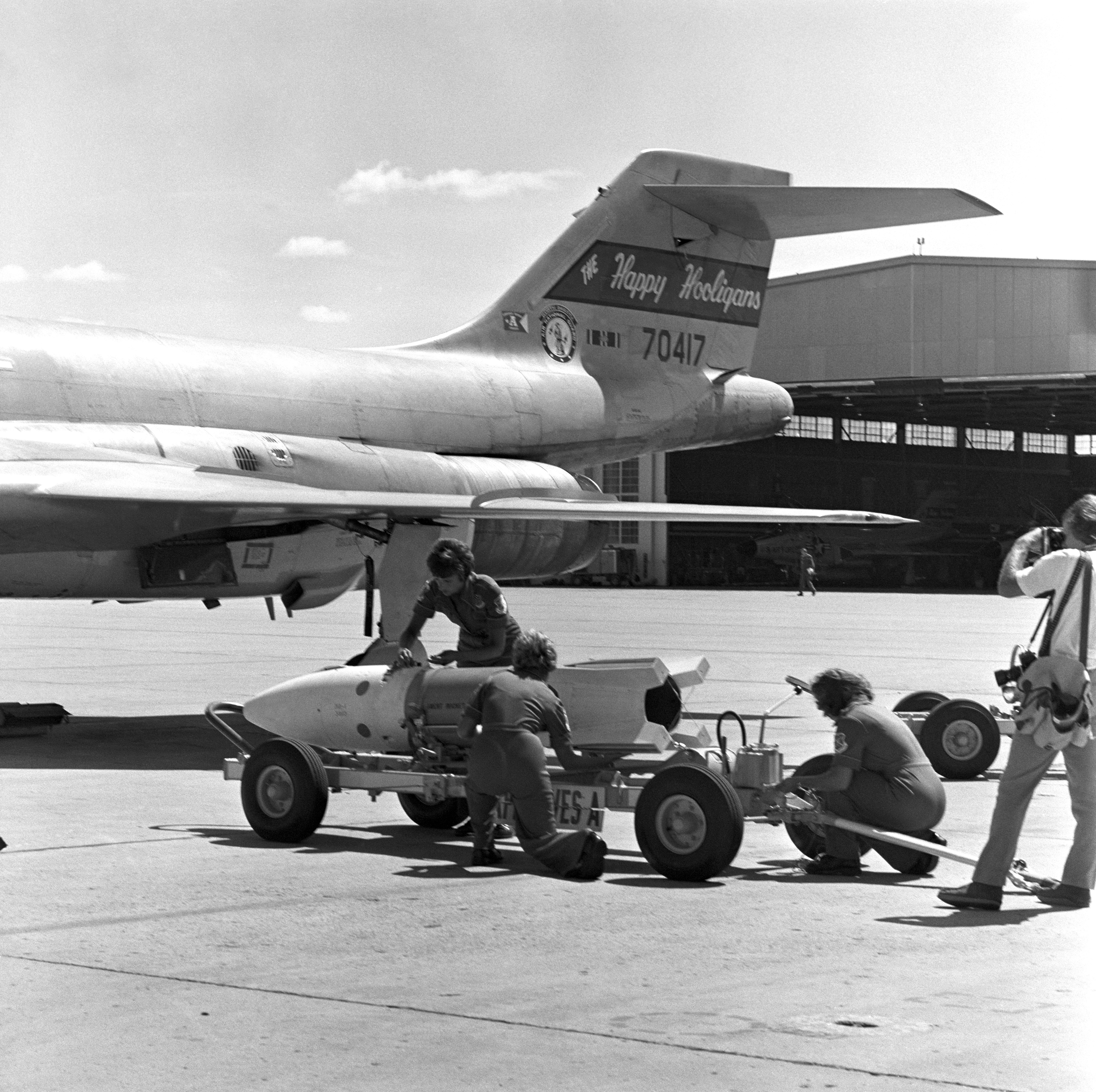 U.S. Air Force weapons handlers Sgt. Patricia McMerty, Sgt. Ellen Rising, and Sgt. Merlin Doorheim, all assigned to the 178th Fighter-Interceptor Squadron, 119th Fighter Group The Happy Hooligans, North Dakota Air National Guard, practice loading of an AIR-2 Genie missile onto a McDonnell F-101B-100-MC Voodoo aircraft (s/n 57-0417), at Hector International Field, North Dakota, for the 1975 "William Tell" weapons competition to be held at Tyndall, Air Force Base, Florida (USA).